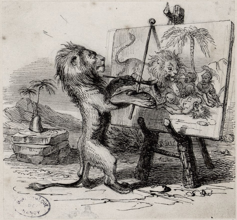 "Le lion abattu par l’homme", original design by Grandville (1837-1838) for the Fables of La Fontaine. Bibliothèques de Nancy (cote BmN : Rés. 4288)